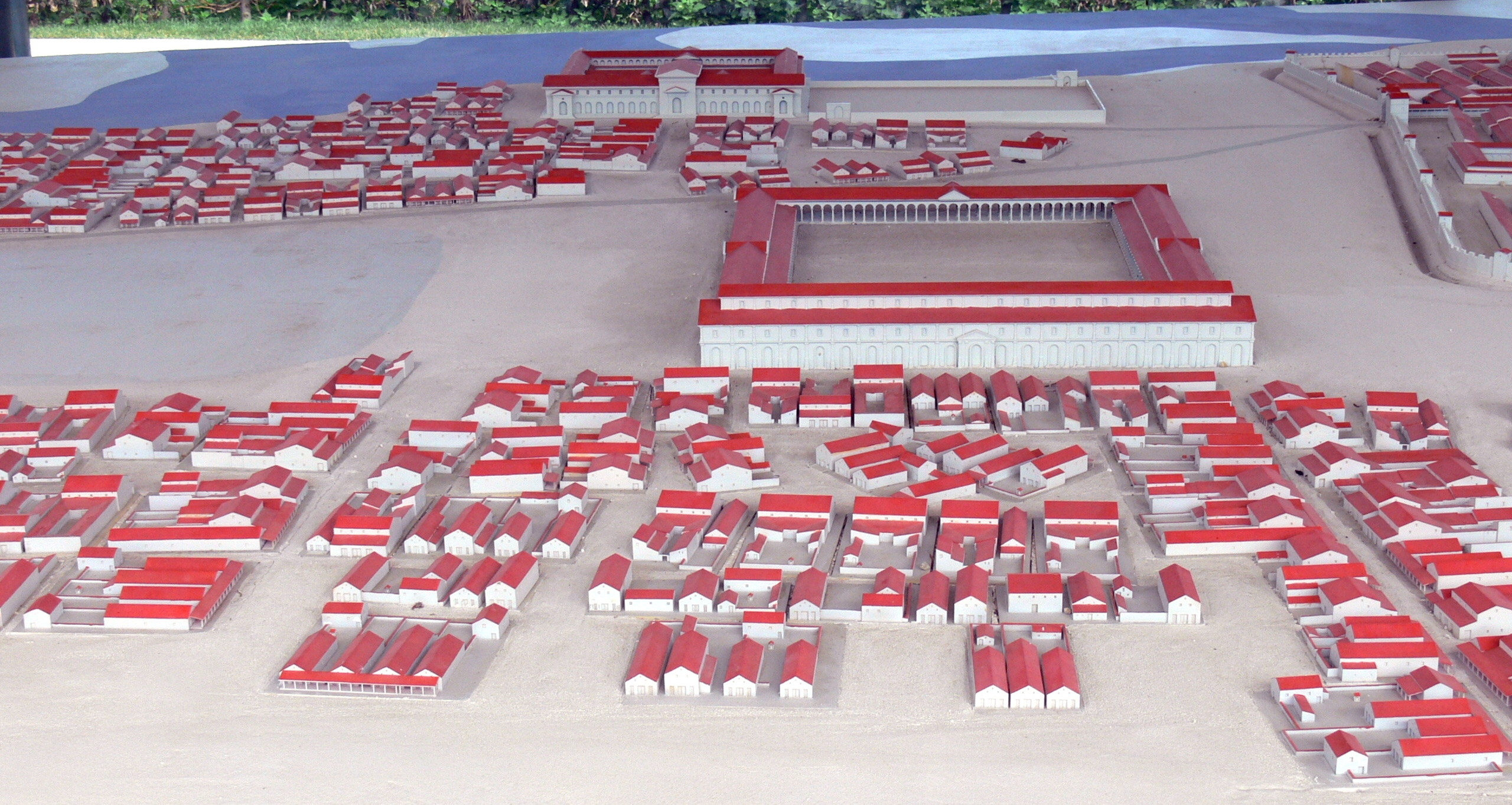 Petronell ( Lower Austria ).Open air museum: Model of Carnuntum ( 210 AD ) - Palace of the gouvernor.